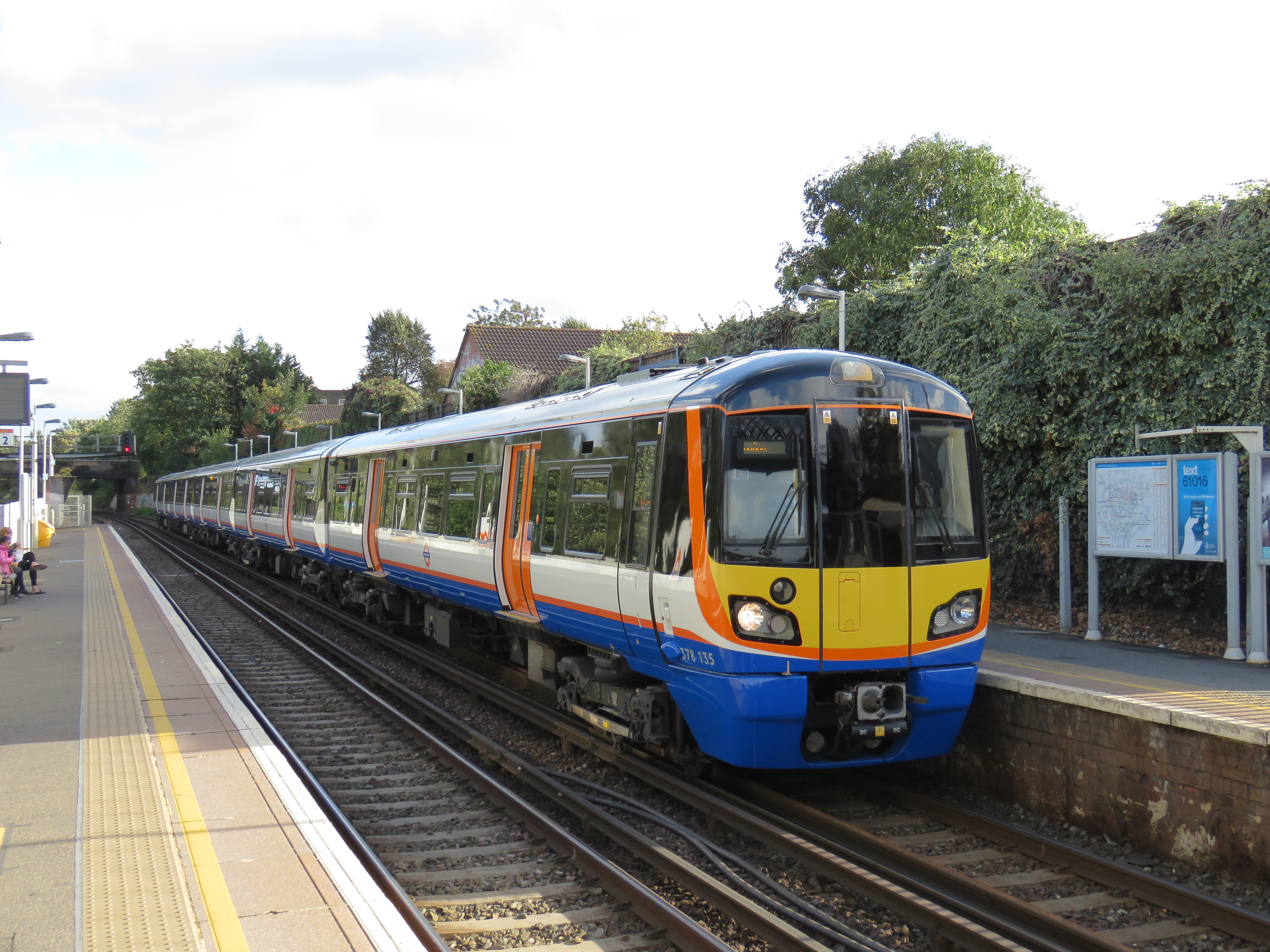 378135 at Wandsworth Road 21/09/18